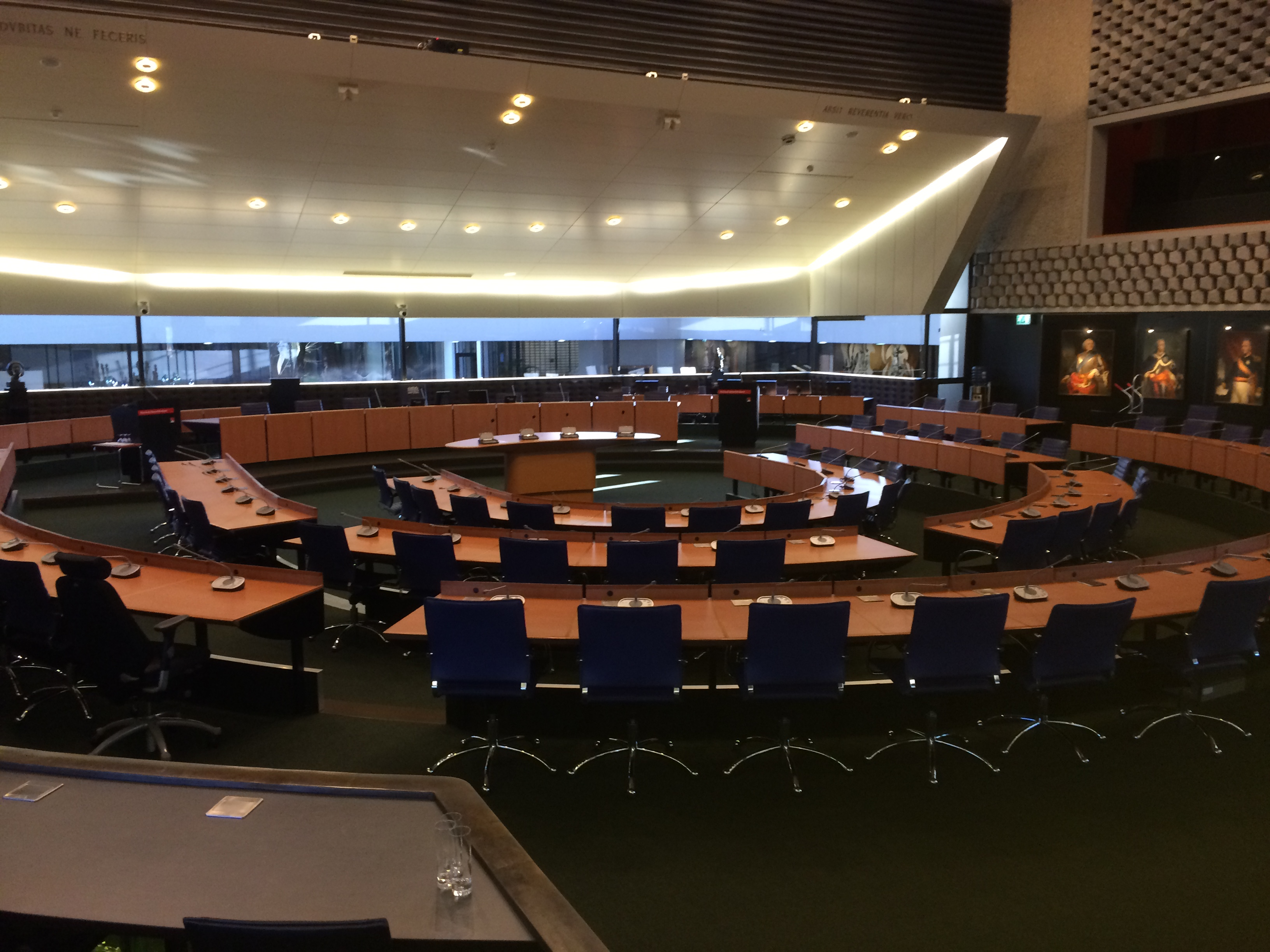 States-Provincial of North Brabant